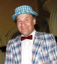 Uncle Floyd Vivino at Centenary College in Hacketstown, NJ. September 21, 2009